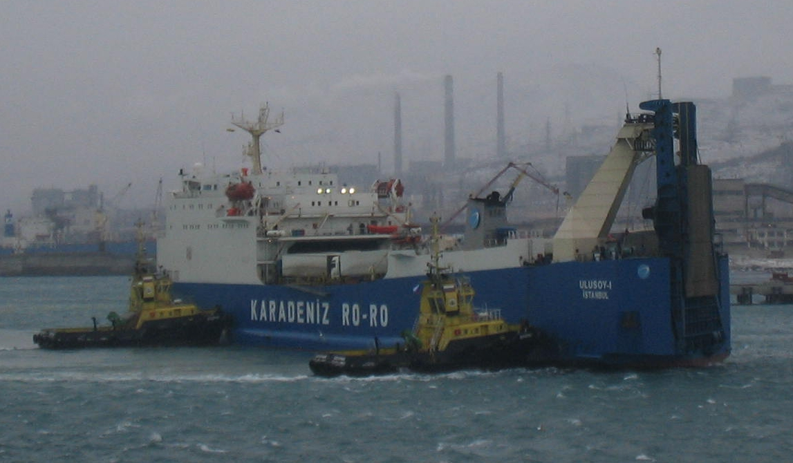 Roro vessel unable to manœuver by herself due to high wind.